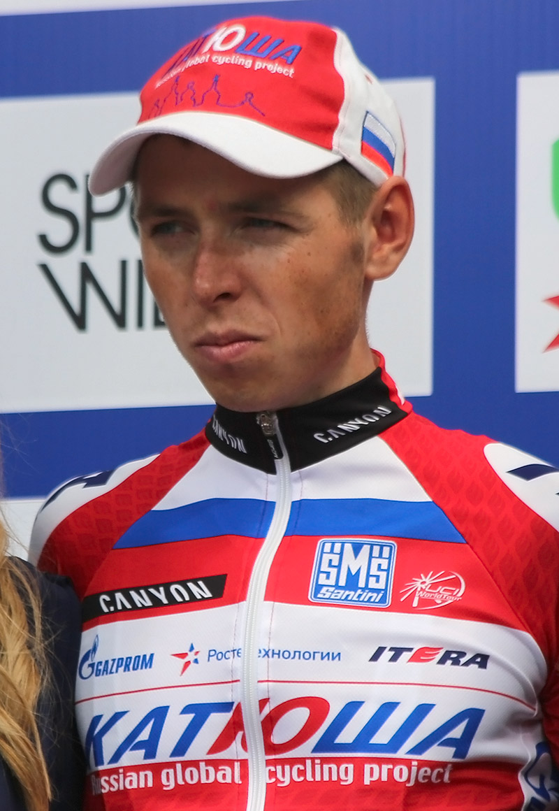 Sergey Chernetskiy, the best cyclist under 25 of the tour, at the award ceremony of the Tour of Austria in Vienna, Austria.